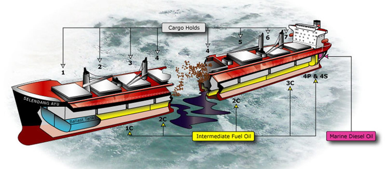 JUNEAU, Alaska (Jan. 6, 2005) - The Unified Command today released this drawing of the Selendang Ayu, how it broke in two dumping fuel and soy beans (Official Unified Command drawing) Creation Date 08:54:00 Submit Date 01/12/2005 11:43:00 PLS ImageID 242881